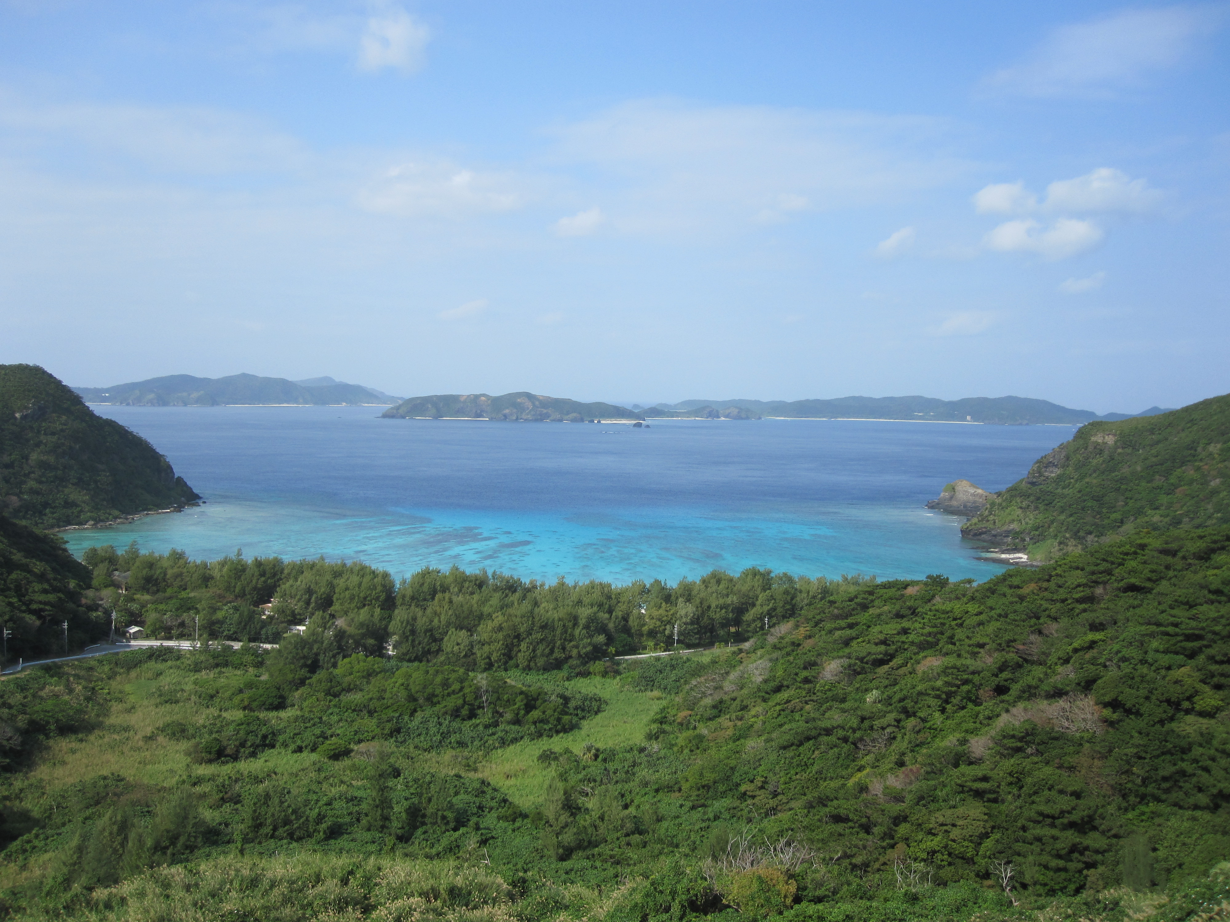 Tokashiku Beach, Tokashiki Island, Okinawa prefecture, Japan